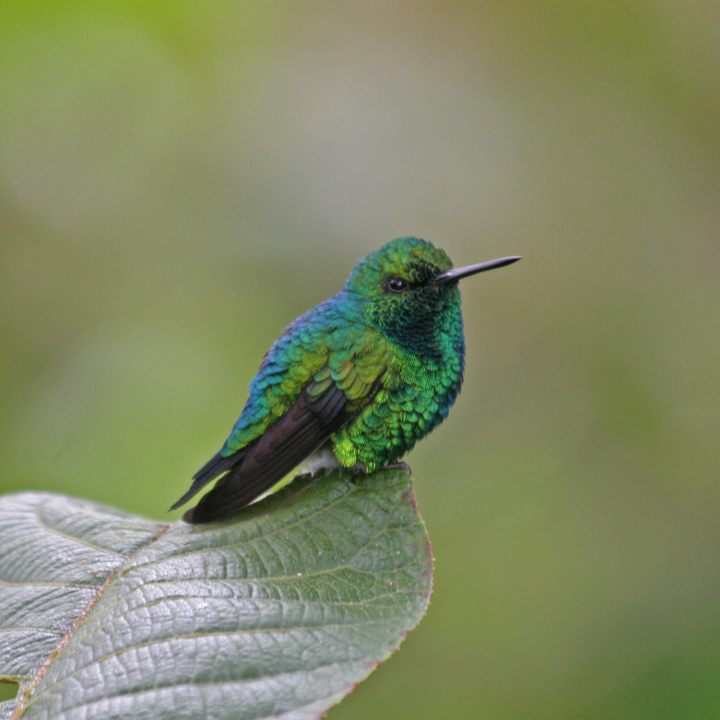 Western Emerald photo taken at Tandayapa Bird Lodge (west slope), Ecuador.